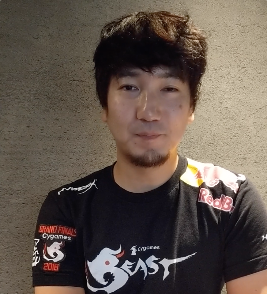 Crop of File:Daigo Umehara at Capcom Cup 2018.png, as uploaded on Wikipedia by Shino Imao. The photograph shows Daigo Umehara at Capcom Cup, on December 16 2018.